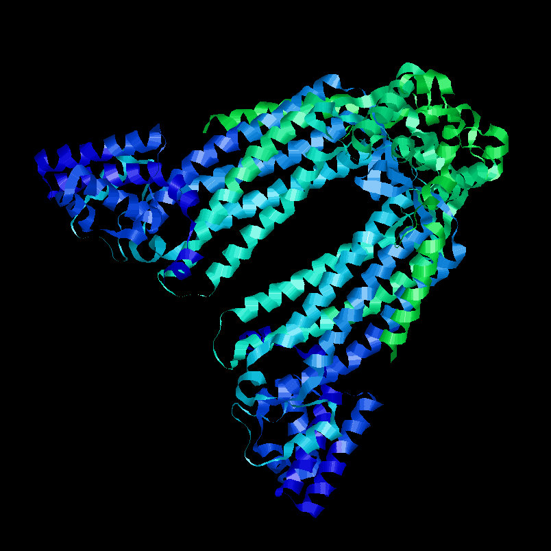 The x-ray diffraction crystal structure of Duck Delta 1 Crystallin, based on the PDB file "1HY0", rendered and arranged in RasMol Windows Version 2.7.2.1.1 .